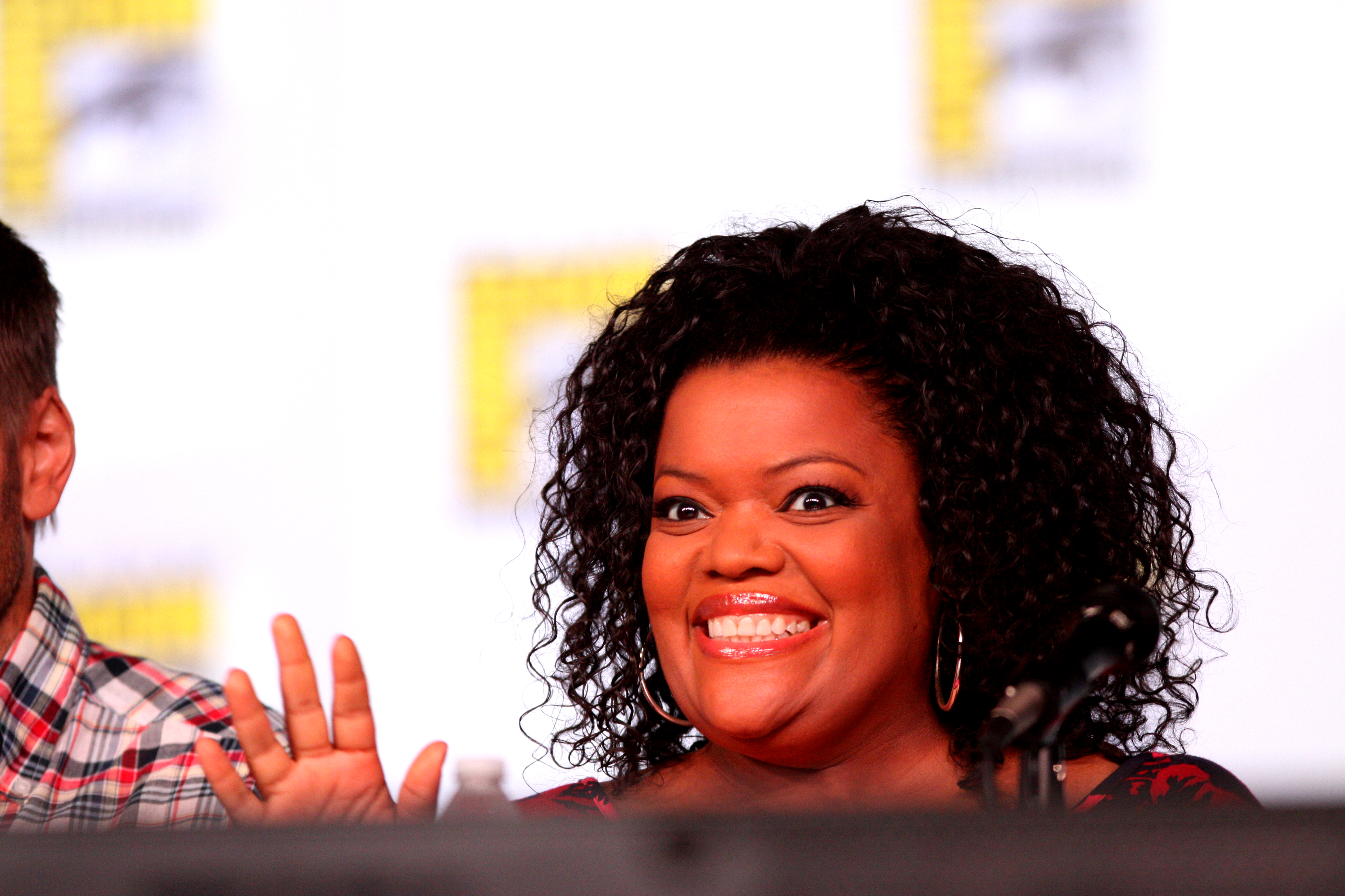 Yvette Nicole Brown speaking at the 2012 San Diego Comic-Con International in San Diego, California.